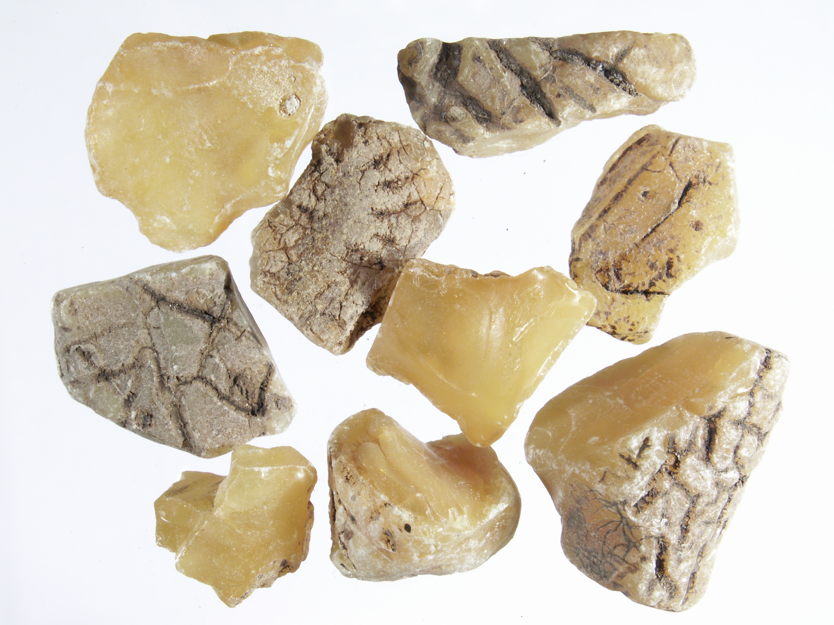 Amber from Bitterfeld, goitschite